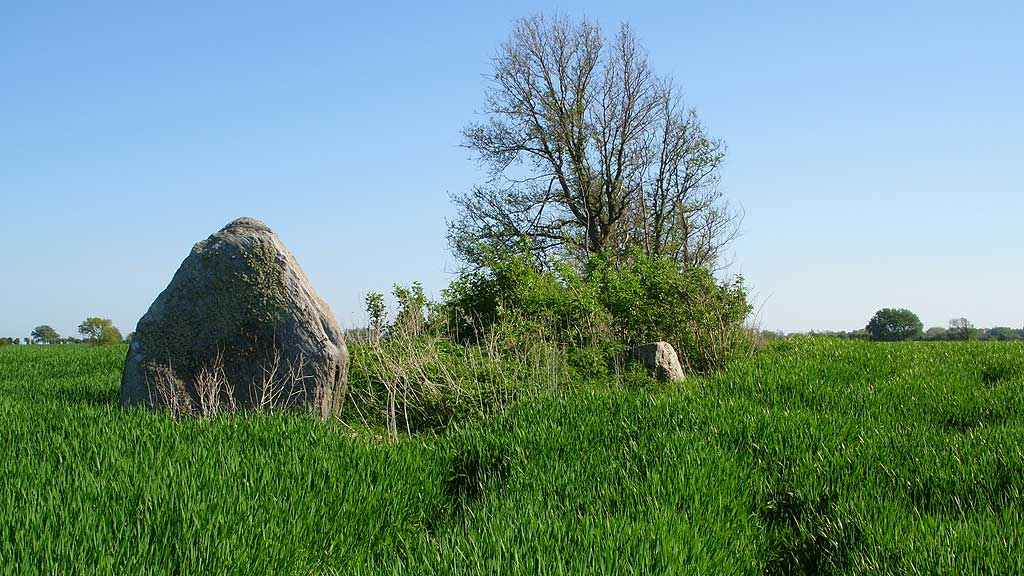 Grossenbrode Huenengrab